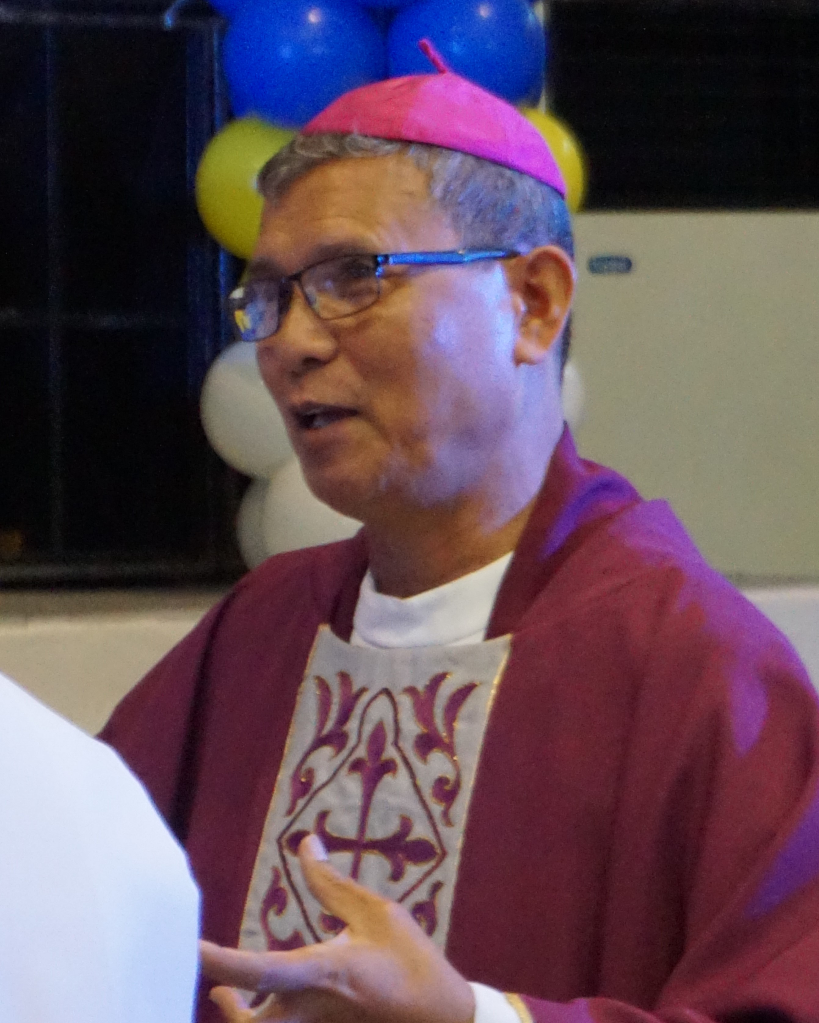 Diocese of Butuan Bishop Cosme Damian Almedilla at Urios Gym.